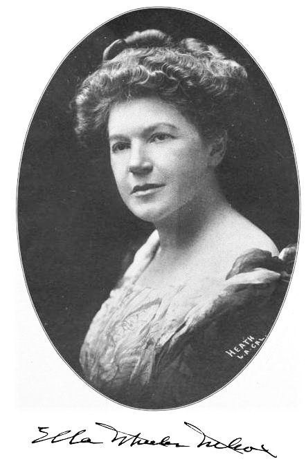 Photograph of American writer Ella Wheeler Wilcox (1850-1919), with copy of signature. From her book New Thought, Common Sense, and What Life Means to Me. Chicago: W. B. Conkey Company, 1908.